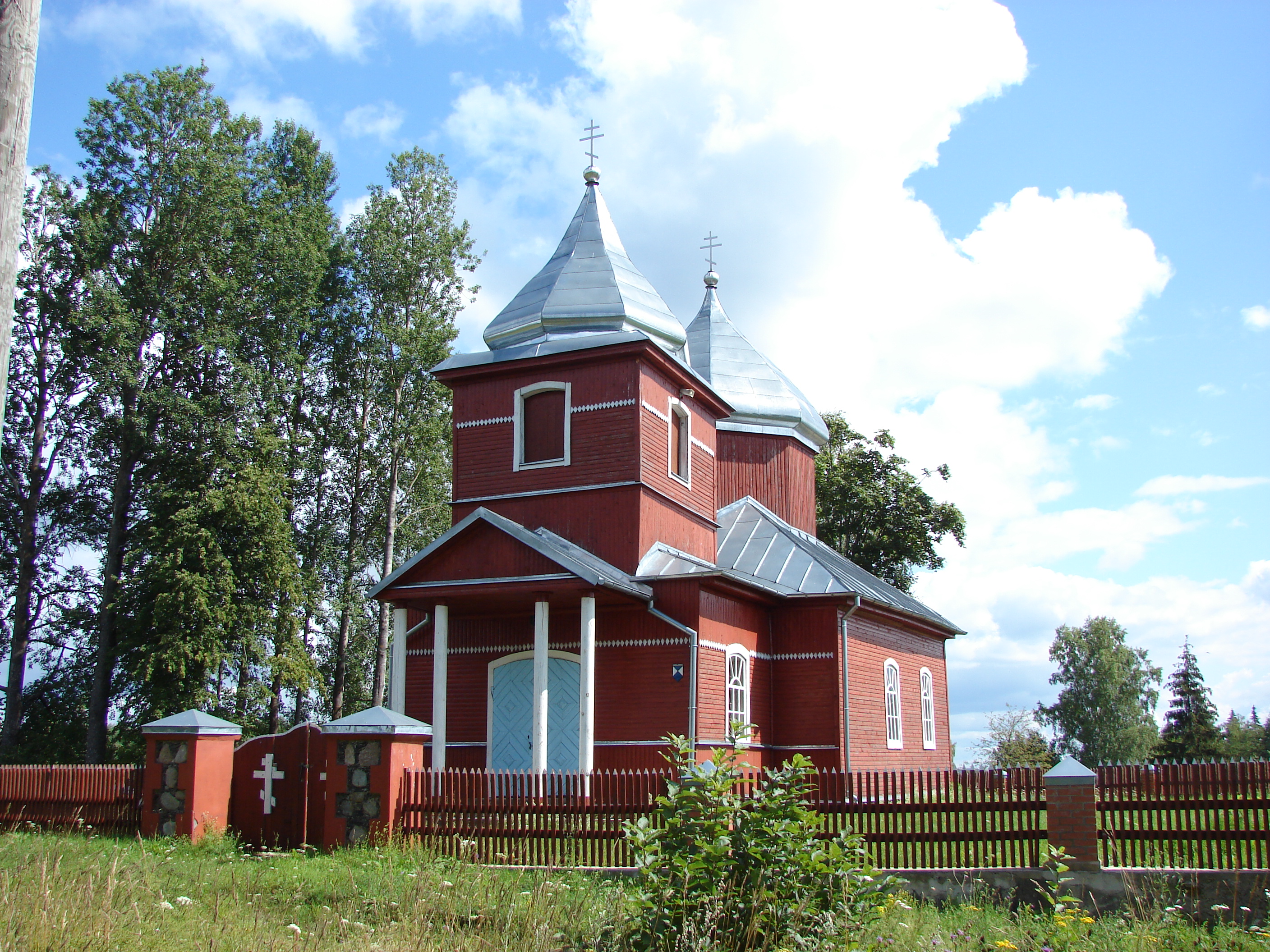 Brodaiža orthodox church